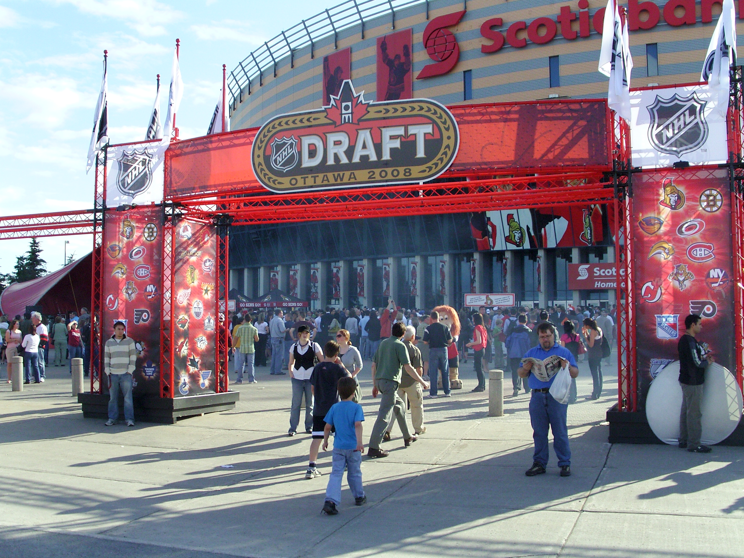 Patio of Scotiabank Place.